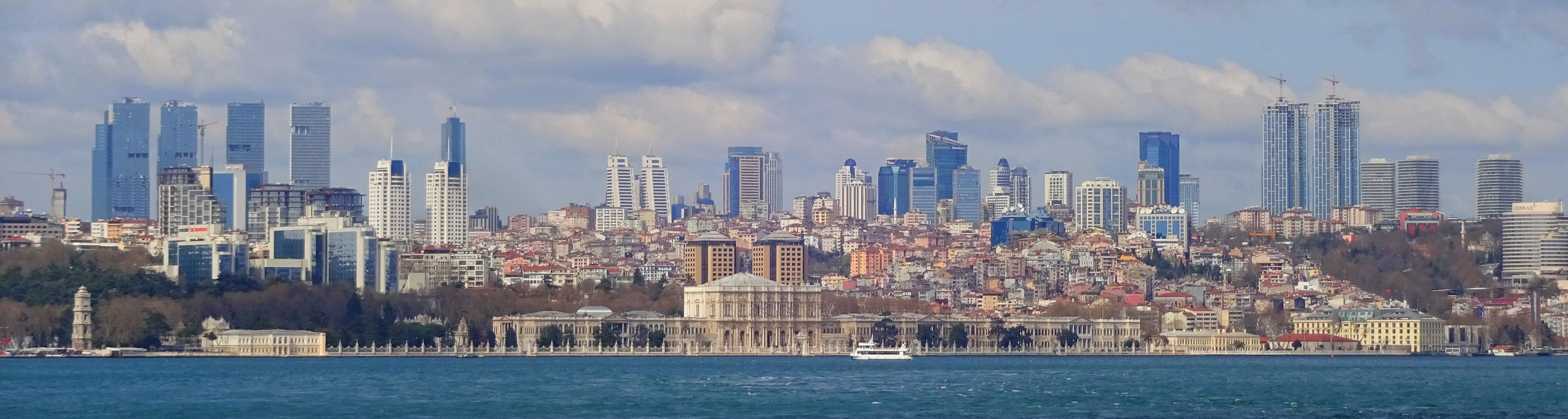 View from the Bosphorus to the skyline of Beşiktaş and Şişli on the European side